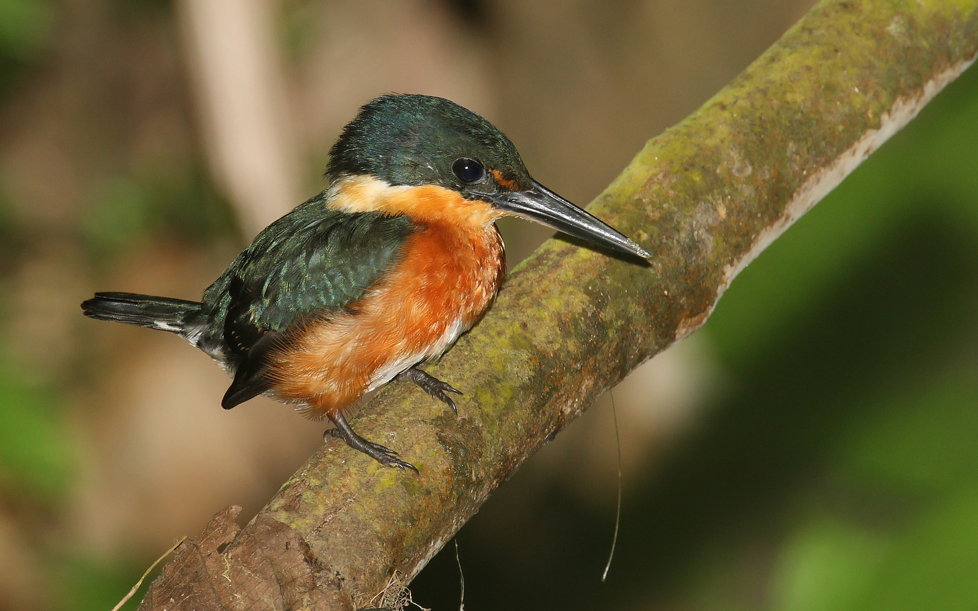 American Pygmy Kingfisher -- Camino del Oleoducto, Parque Nacional Soberania, Panama -- 2008 January